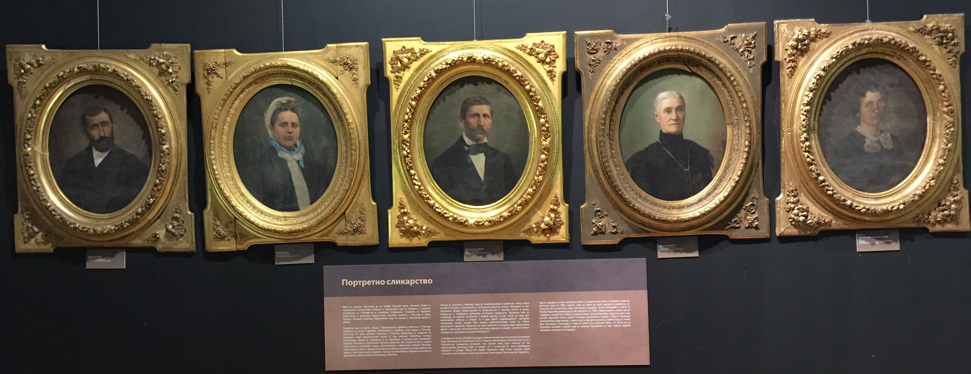 Historical Museum of Serbia, Collection Đorđe Čarapić (1876-1941), Portrait Painting.